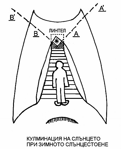 Garlo Nuraghe lntl